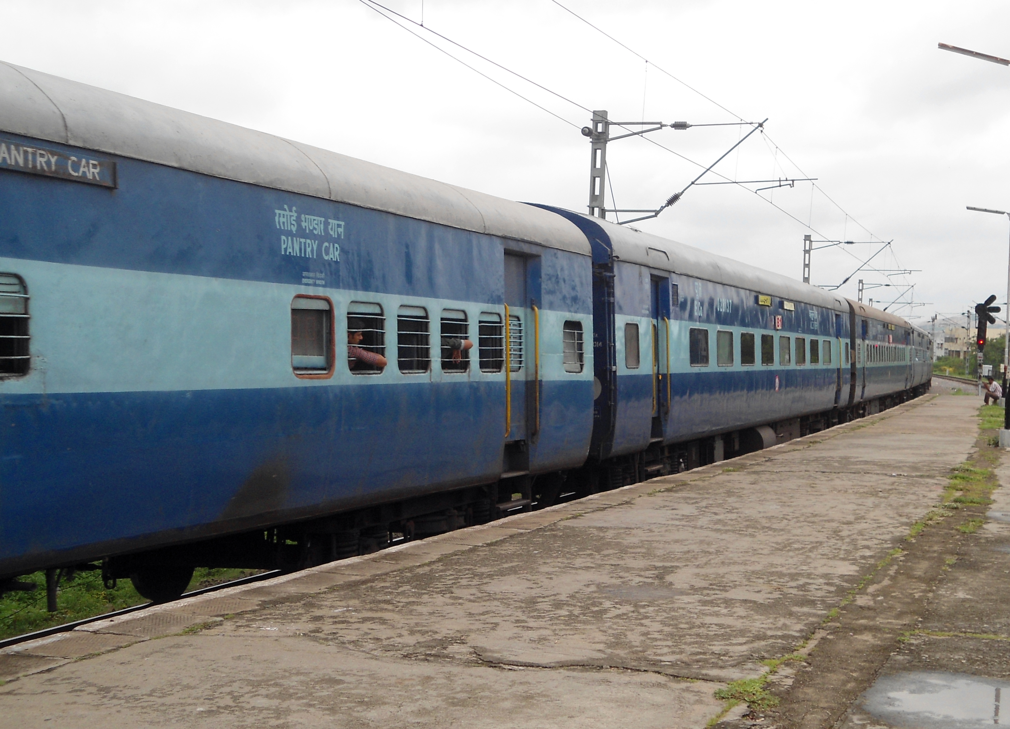 18309 (SBP-NED) Nagavali Express at Lallaguda Gate, Secunderabad